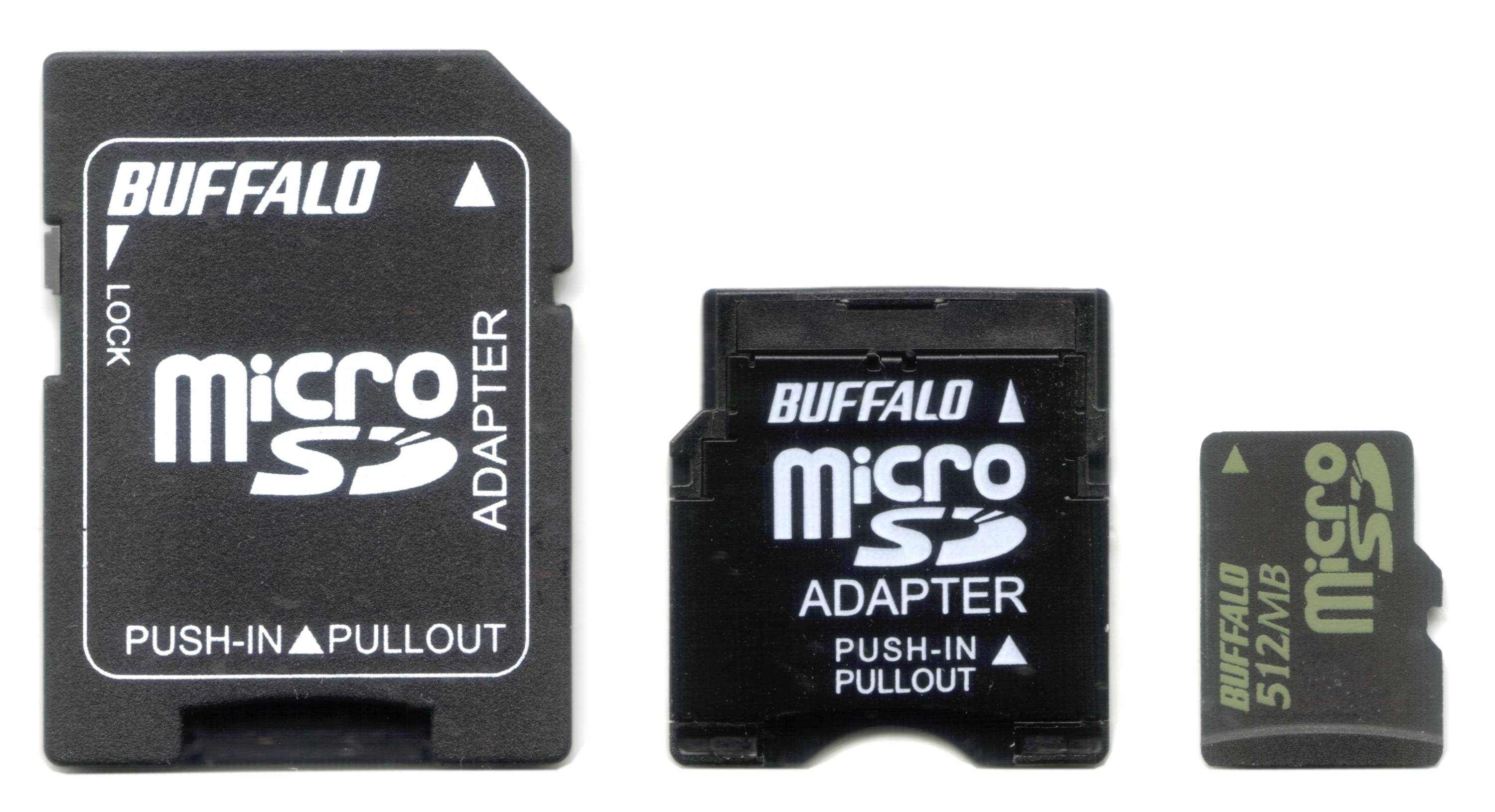 Buffalo microSD Memory card and adapters